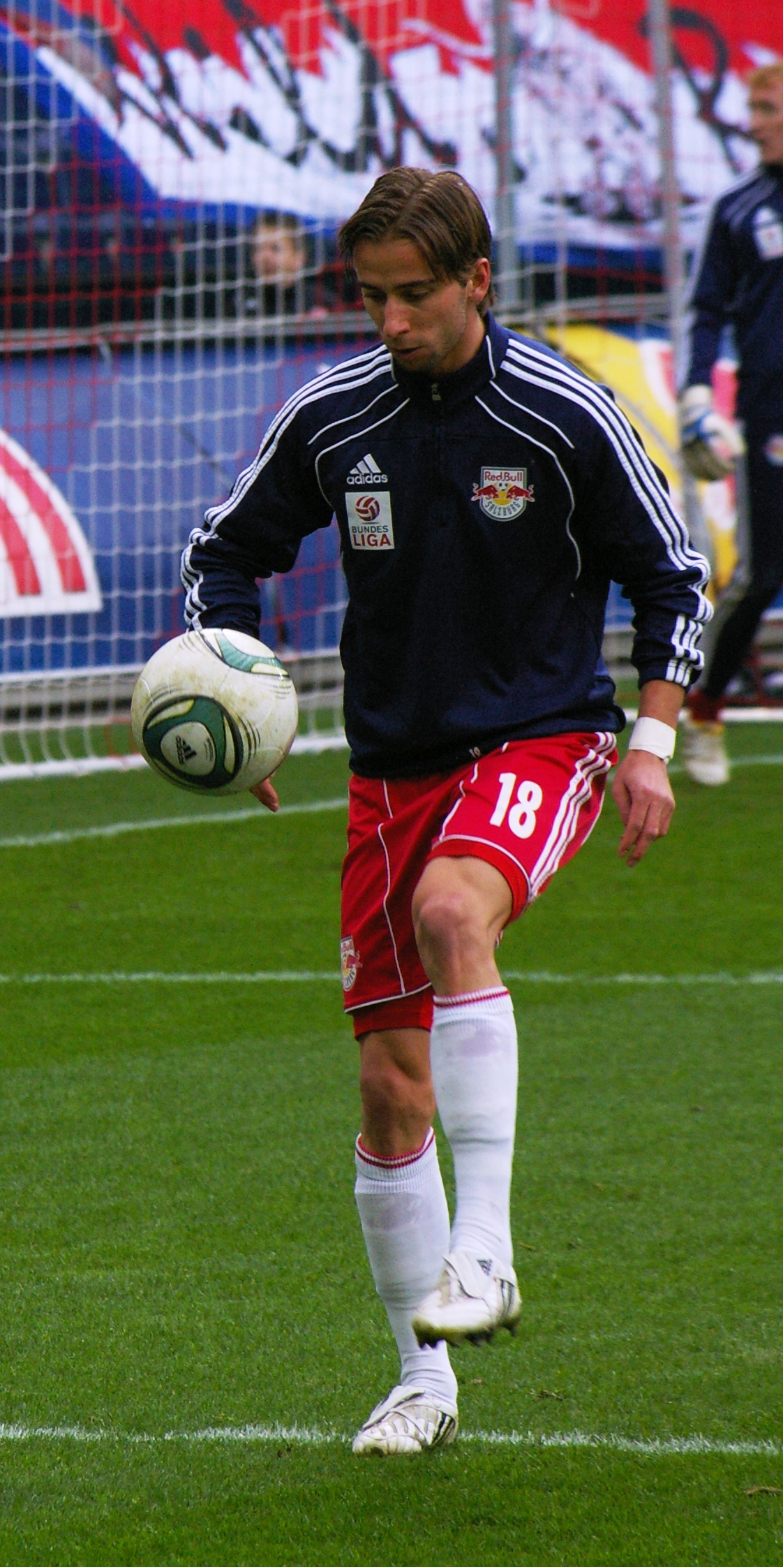 midfielder FC Red Bull Salzburg